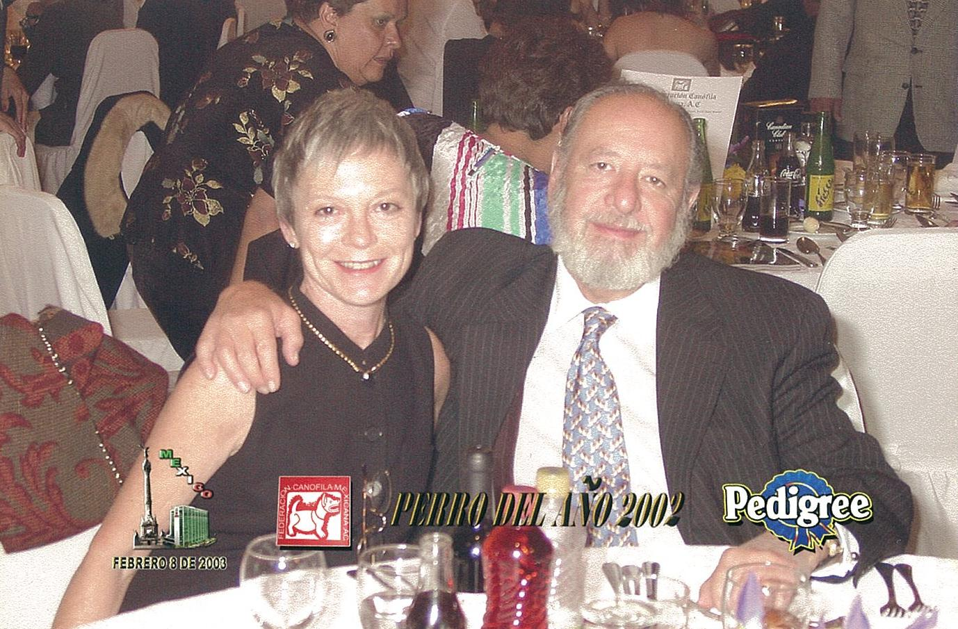 At "Perro del Año 2002" on 8 Feb 2003